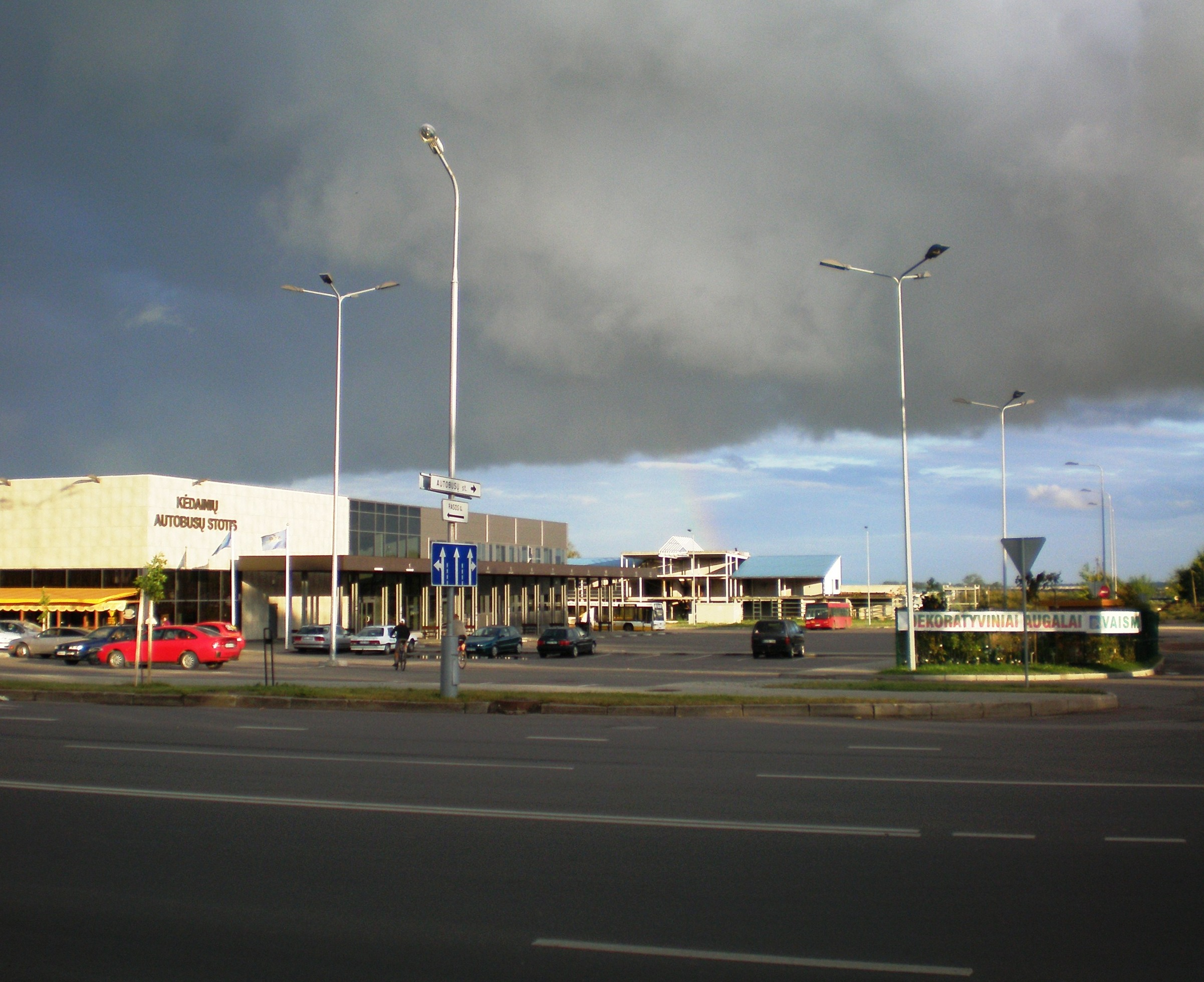 Kėdainiai Bus Station, Lithuania